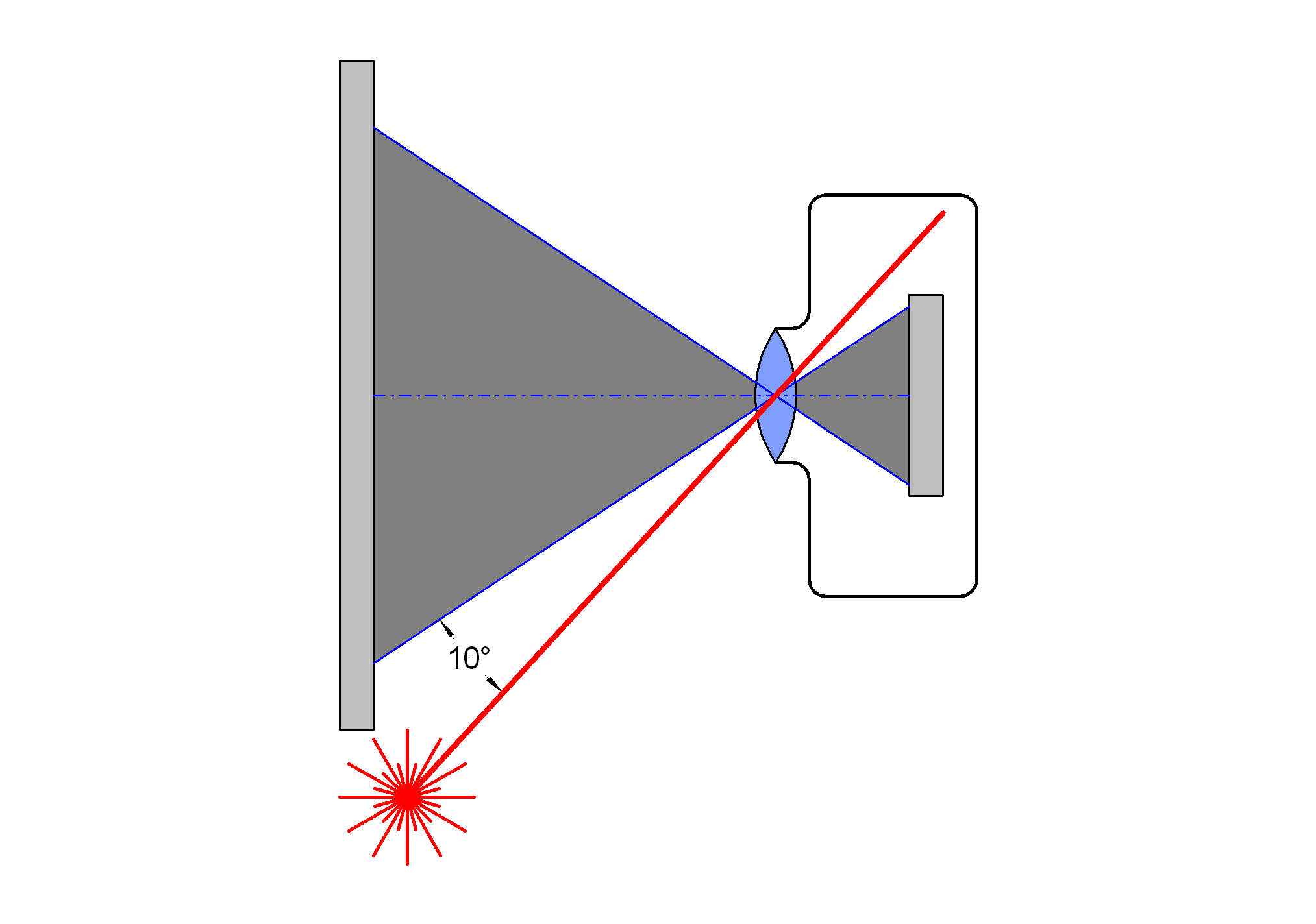 Measurement of unintended scattered and reflected light (veiling glare) with a camera.